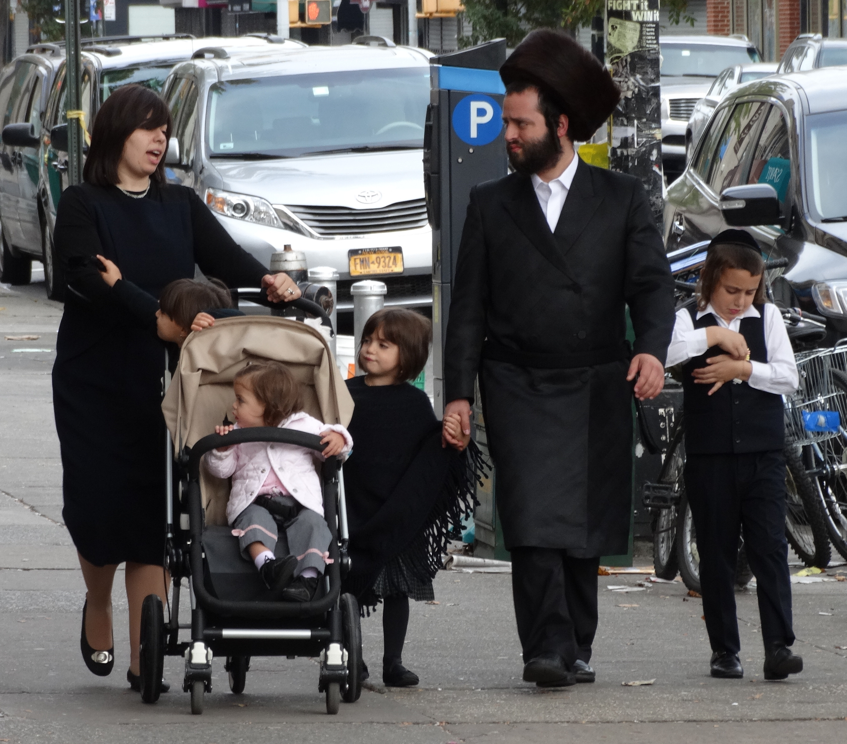 Hasidic Family in Street - Borough Park - Hasidic District - Brooklyn - New York.